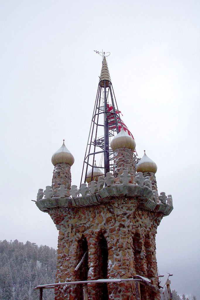 torre del castillo